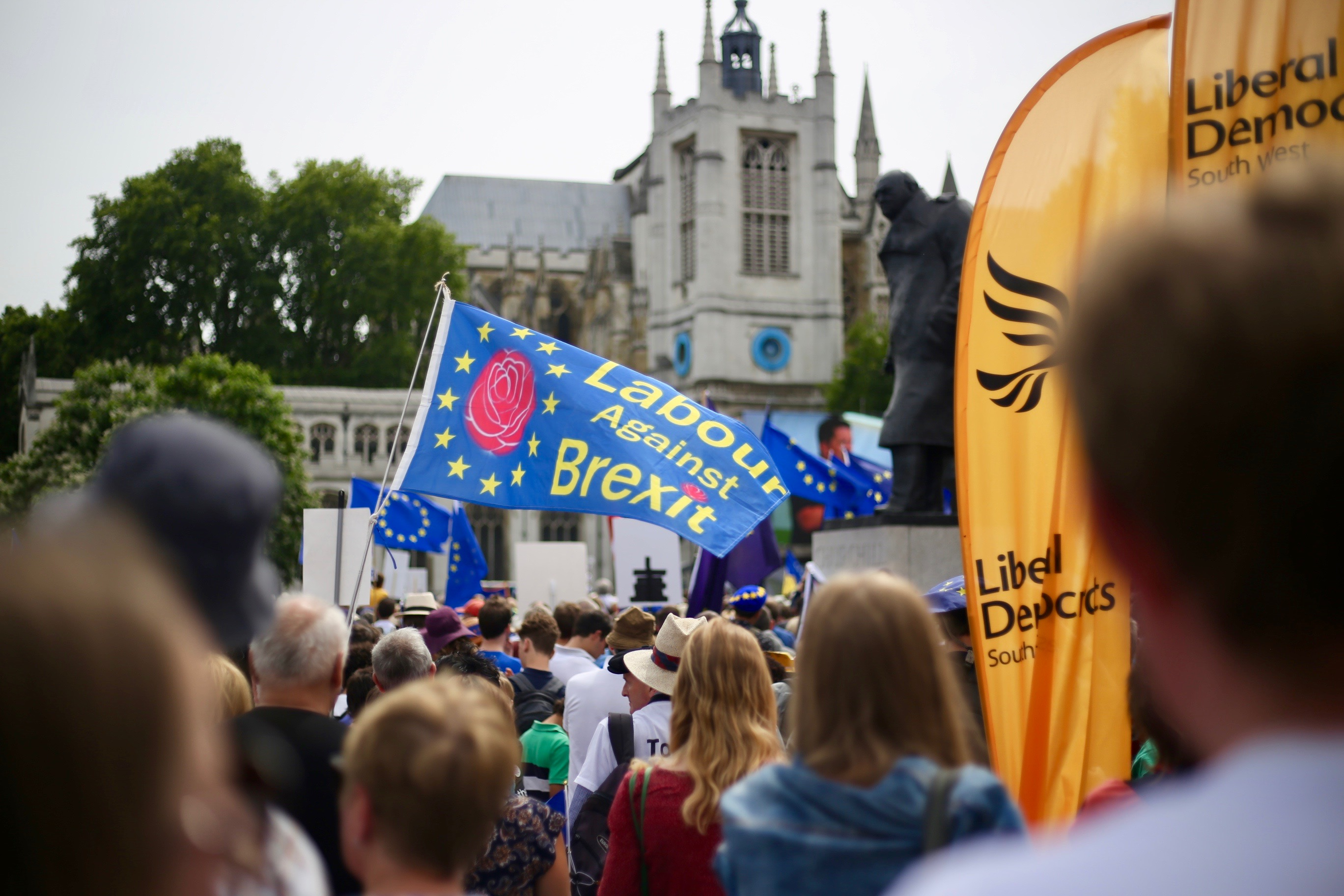 people's vote